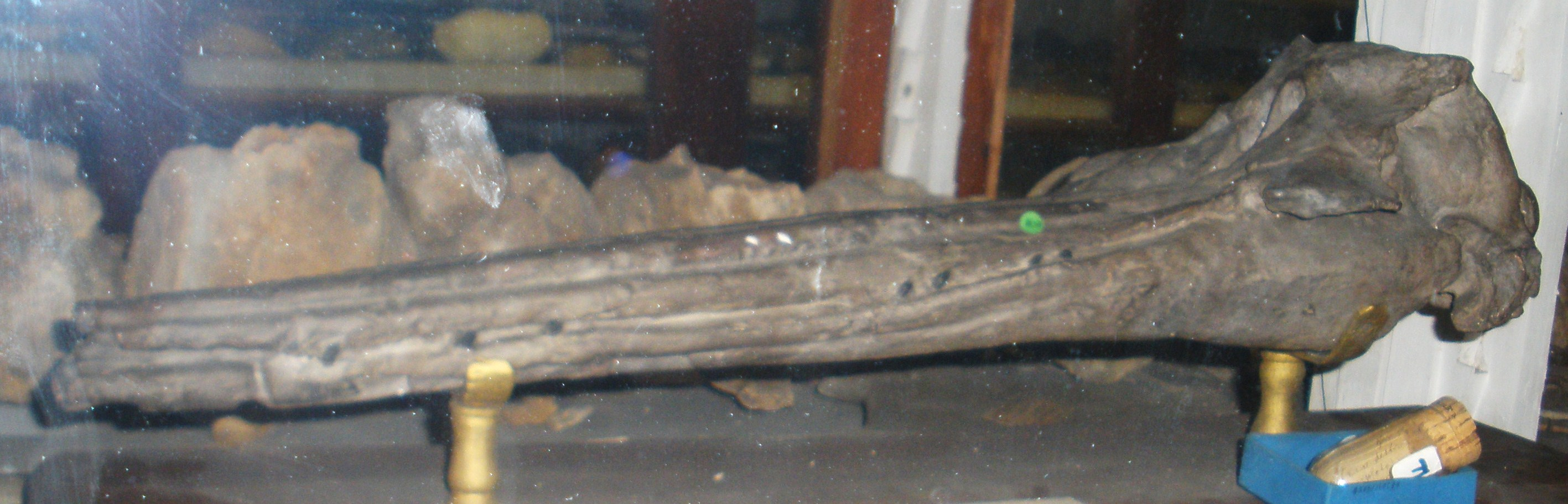 Fossil of Cyrtodelphis sulcatus, an extinct dolphin